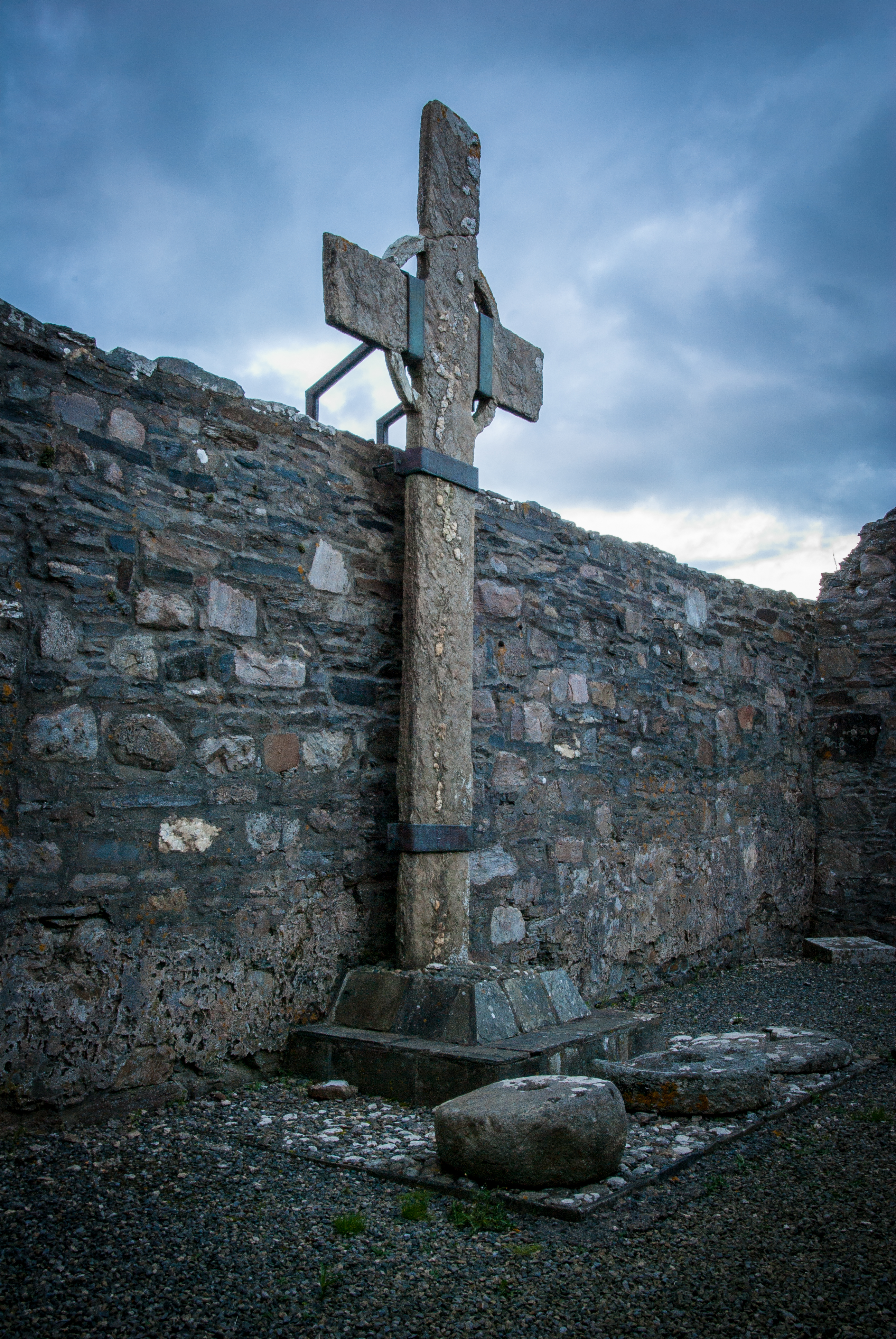 Teampall Ráithe (Ray Church) is a Medieval church, situated in the parish of Cloich Cheann Fhaola in West Donegal, Ireland.